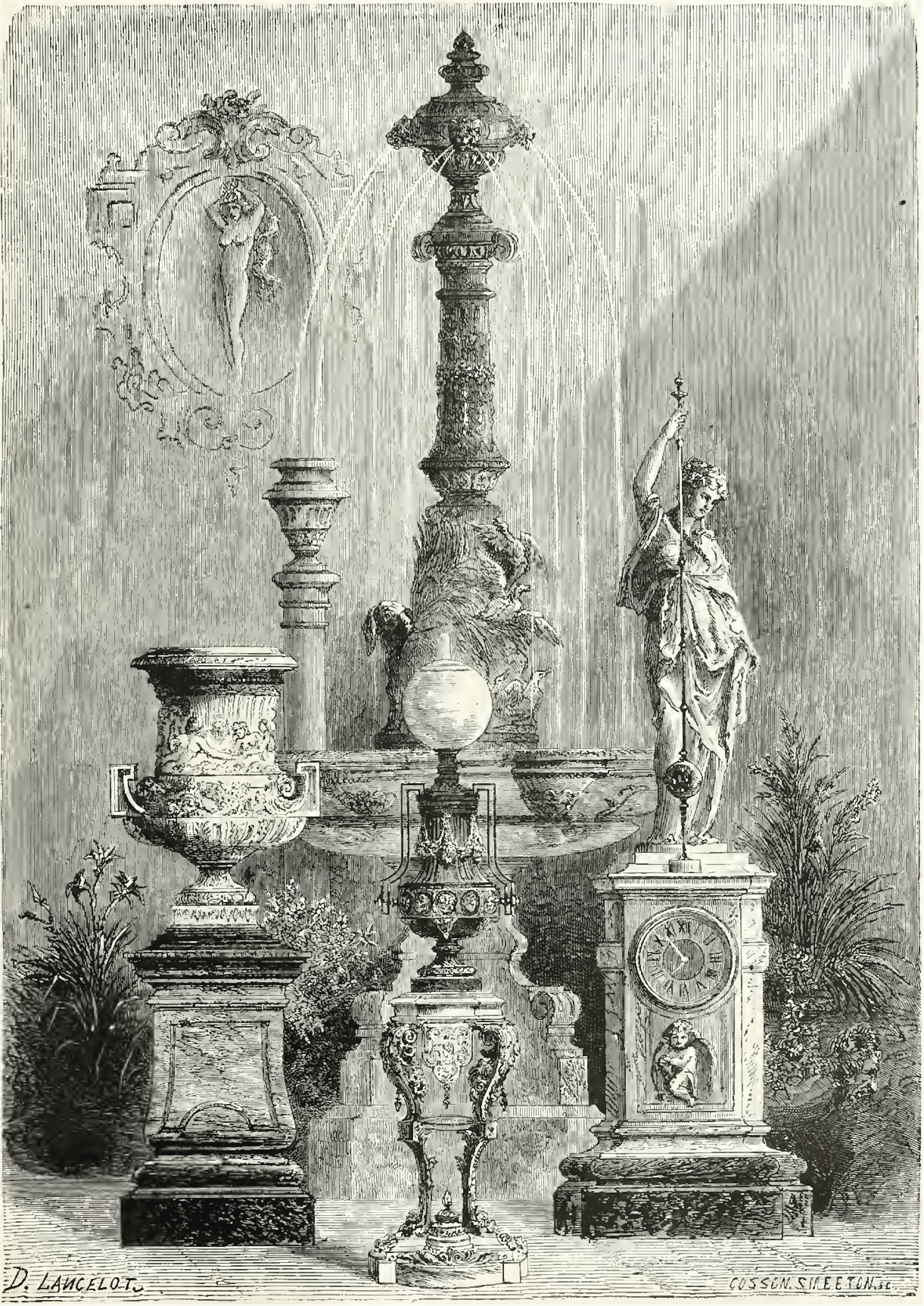 Drawing by D. Lancelot depicting a monumental conical pendulum clock by E. Farcot during the Paris 1867 world fair.